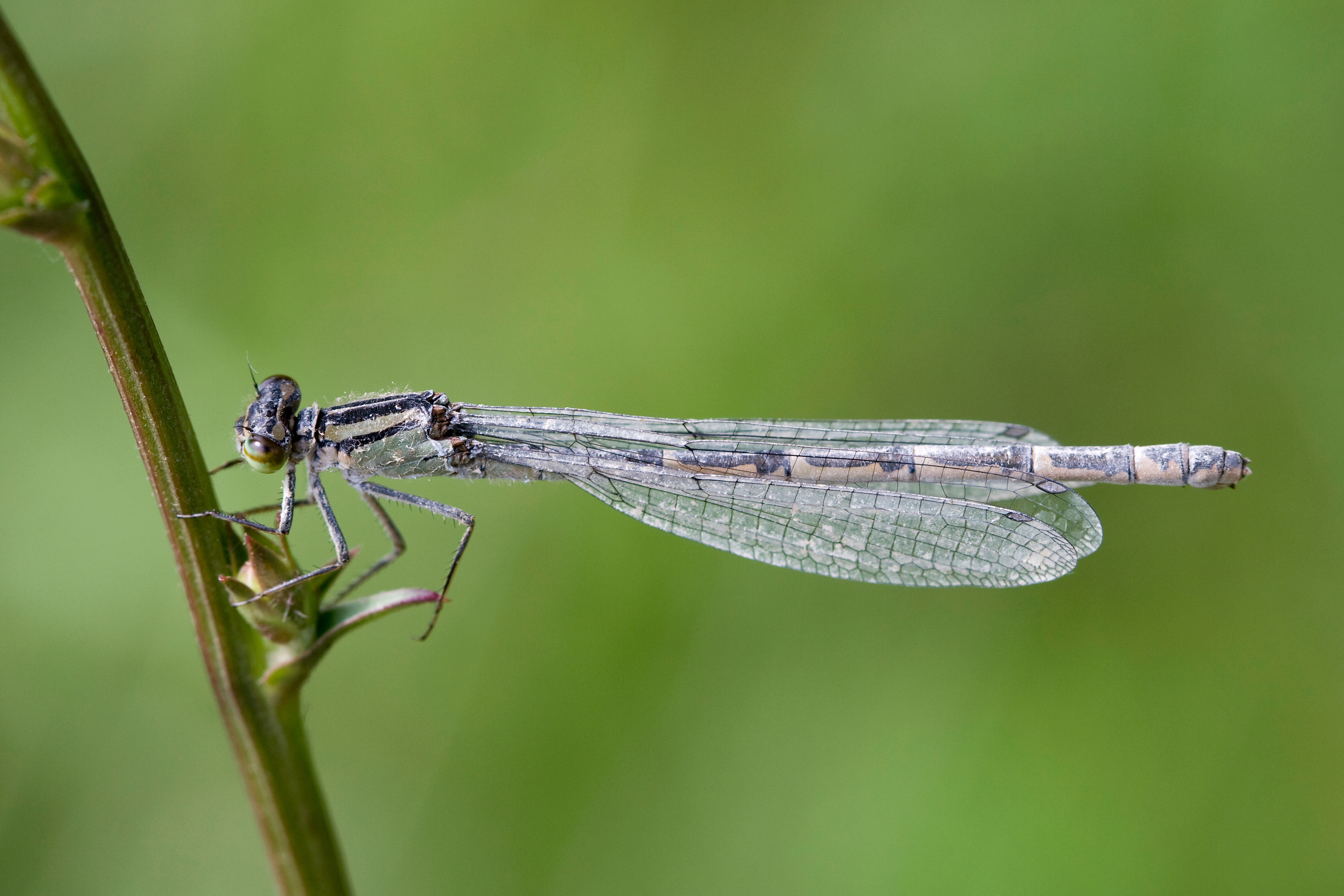 A heteromorph (non male coloured) female of the Common Blue Damselfly (Enallagma cyathigerum), here the green variety, on the banks of the Upper Rhine at Breisach, southwestern Baden-Württemberg, Germany. This older female shows an unusually heavy contamination of abdomen and wings, which may be explained by adhesion of dirt during the underwater oviposition. Only the compound eyes are clear, obviously they were cleaned by the damselfly.